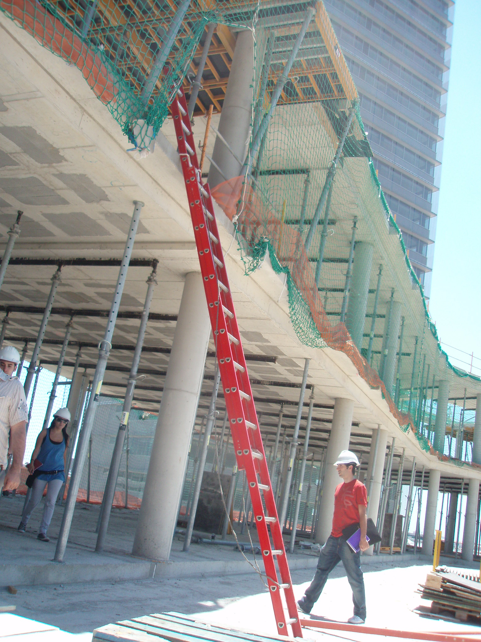 Ladder